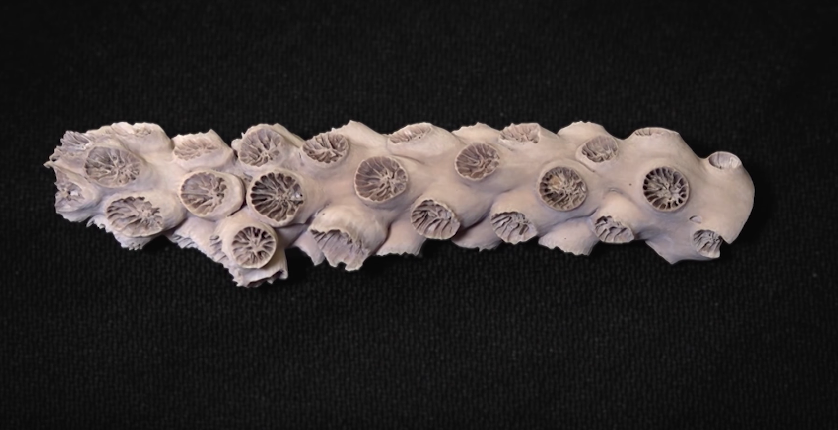 Coral fossil found in Shubuta clay along the Chickasawhay River